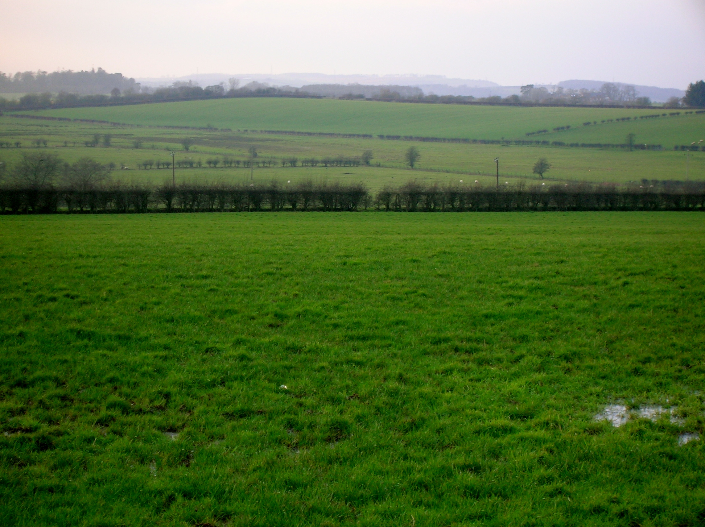 The site of Bruntwood Loch, looking towards the site of Lochend Farm, East Ayrshire, Scotland.